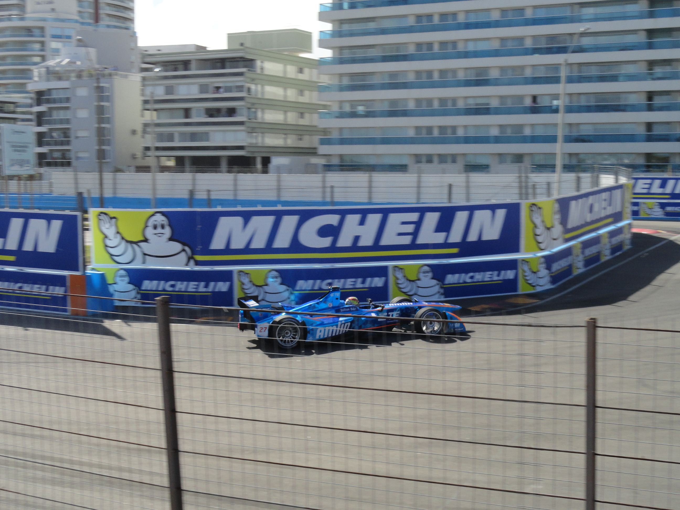 2015 Punta del Este ePrix race